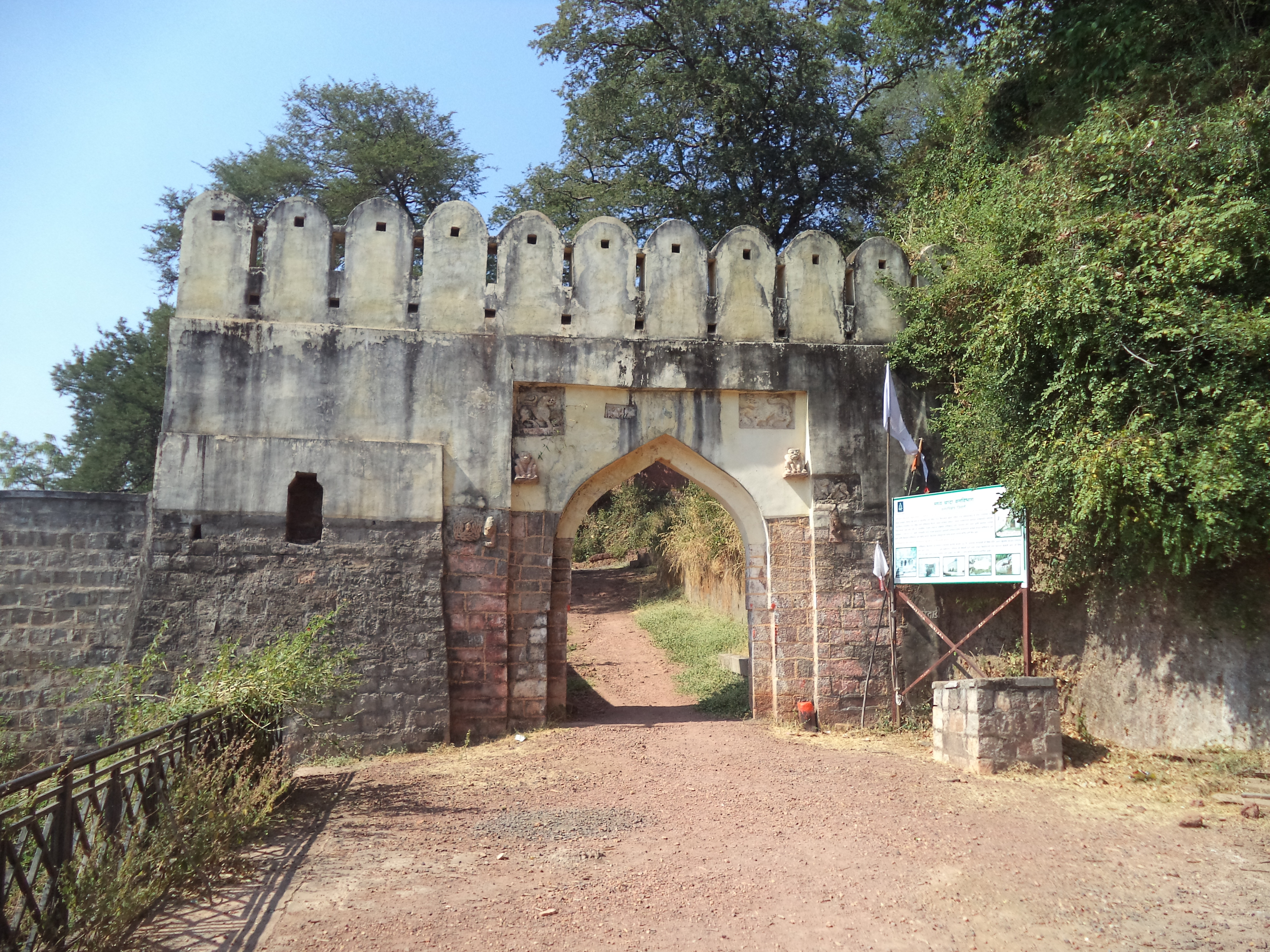 Manikgad, is an ancient fort in Chandrapur district, Maharashtra.